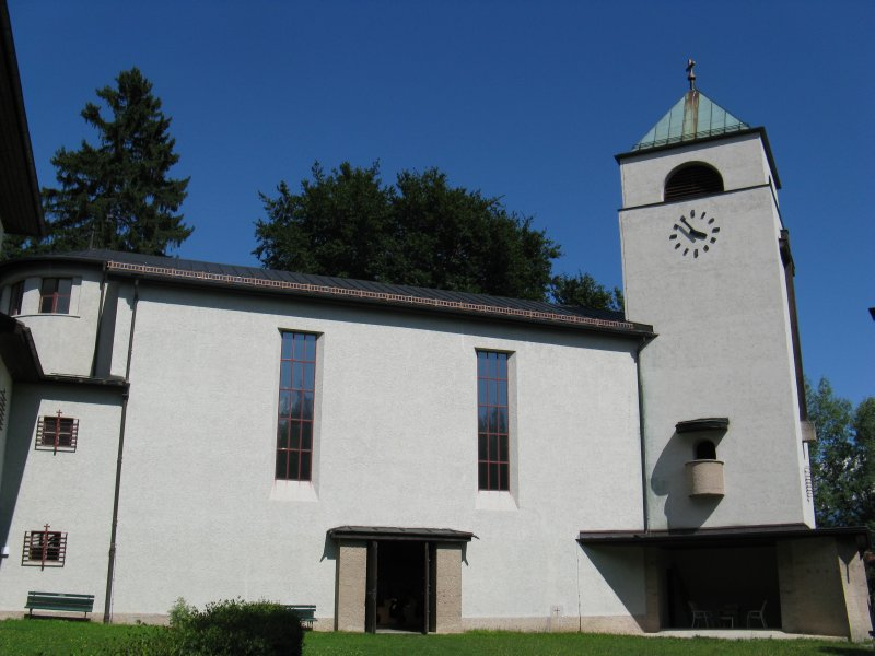 Theresien church in Hungerburg quarter in Innsbruck